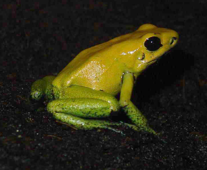 B kimmel says "This is the Black-Legged Poison Dart Frog (Phyllobates bicolor)." (Original comment; "Photo taken with Nikon E8800. Self made.")